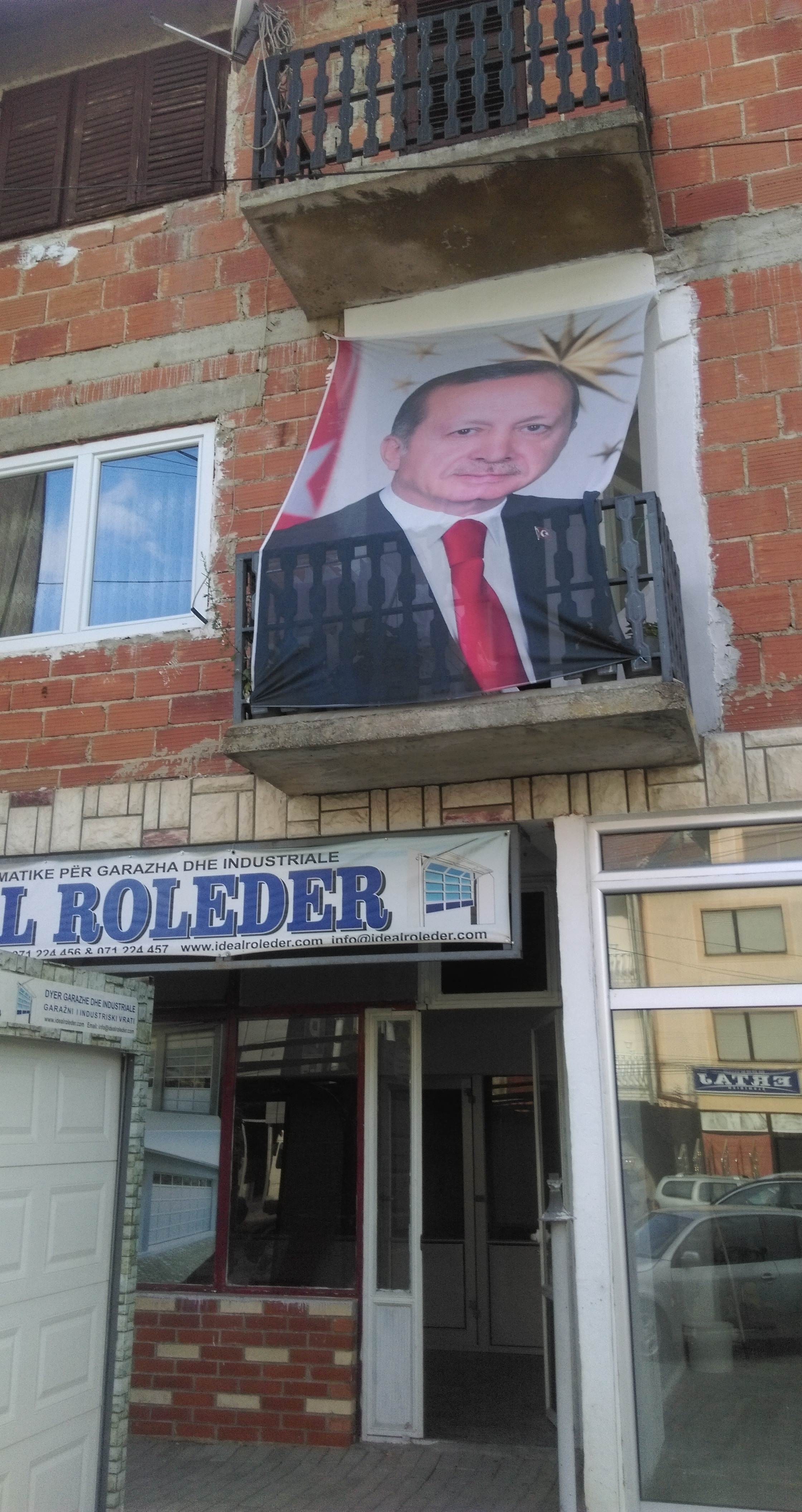 Pro-Erdogan banner in Gostivar, Macedonia